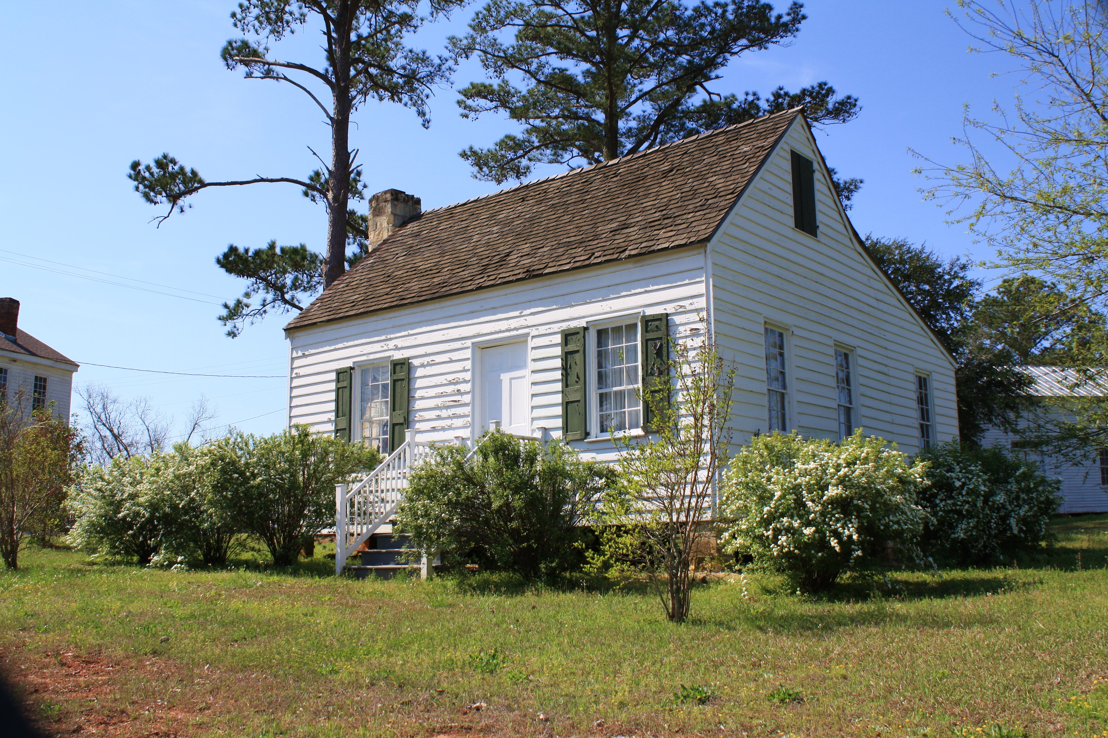 The William B. Travis House at Perdue Hill, Monroe County, Alabama. Originally located at what is now the ghost town of Claiborne, a few miles west on the Alabama River.